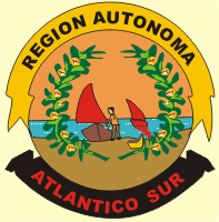 Logo of RAAS